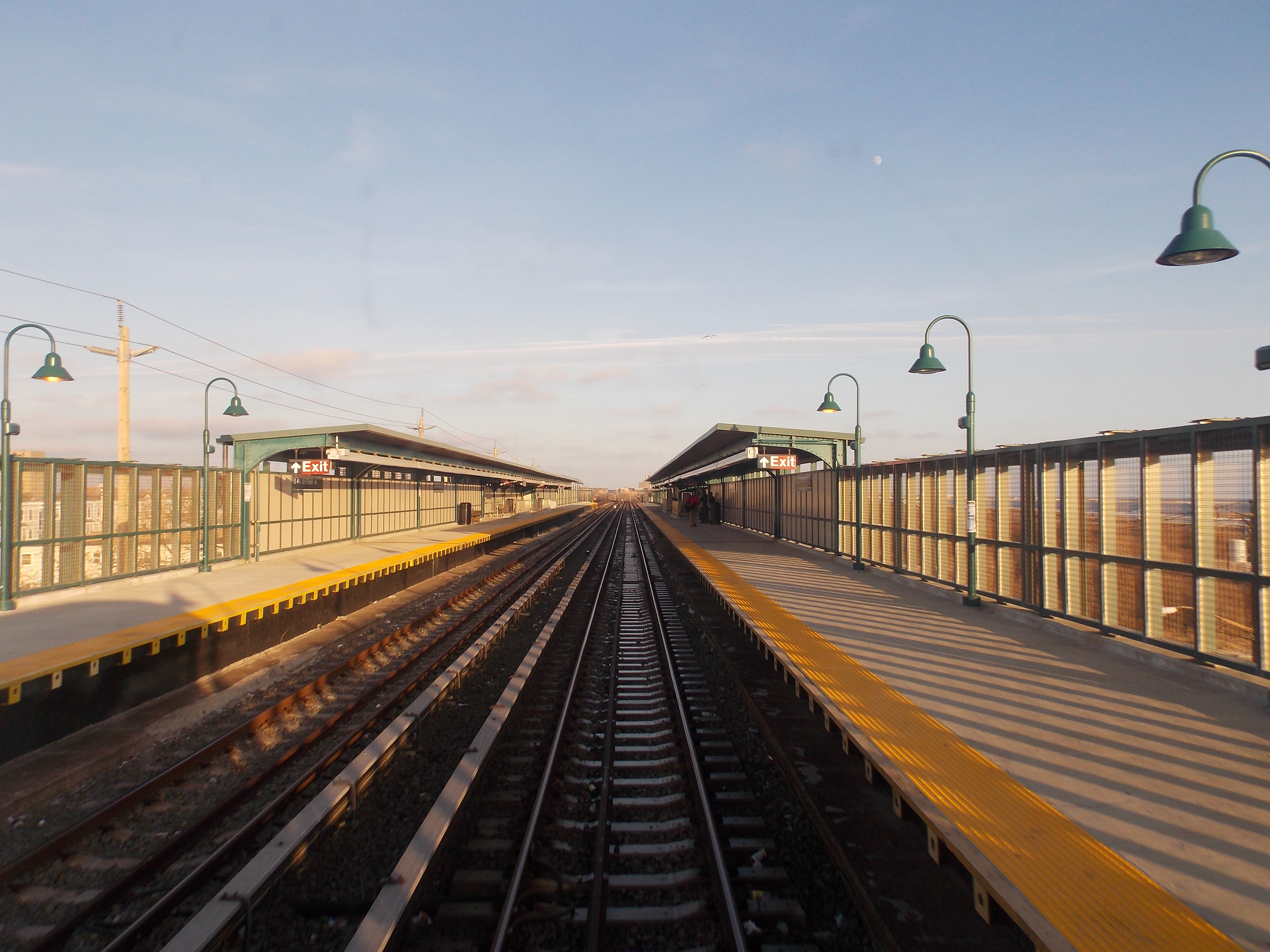 Black Friday: A Day in New York 23rd Nov 2012